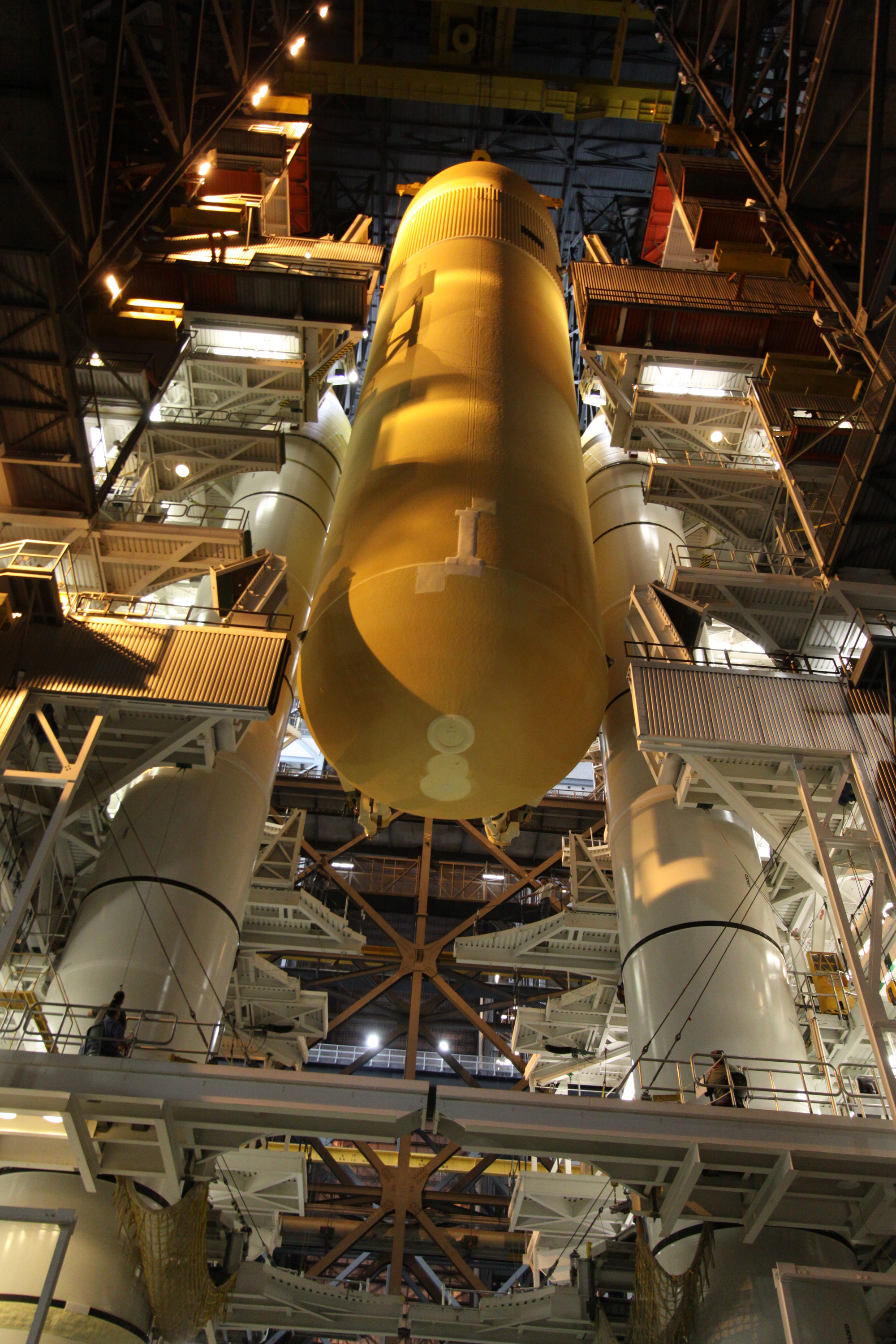 CAPE CANAVERAL, Fla. – In the Vehicle Assembly Building at NASA's Kennedy Space Center in Florida, the external tank for space shuttle Endeavour's STS-130 mission, ET-134, is lowered beside the twin solid rocket boosters already stacked on a mobile launcher platform in High Bay-1 for use on the mission. Endeavour's move, or "rollover," from Orbiter Processing Facility-2 is targeted for Dec. 12. The Tranquility module, the payload for the STS-130 mission to the International Space Station, will be installed in the payload bay after the shuttle has reached the pad. Endeavour's launch is targeted for Feb. 4, 2010. For information on the STS-130 mission and crew, visit